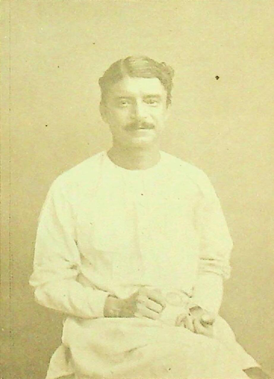 Hemendra Mohan Bose was an Indian entrepreneur, manufacturer of Kuntalin hair oil and Delkhosh brand of perfume. He was the first Indian to manufacture gramophones, alone with first Indian-owned cycle works in Calcutta, first Indian-owned automobile distributor in Calcutta.